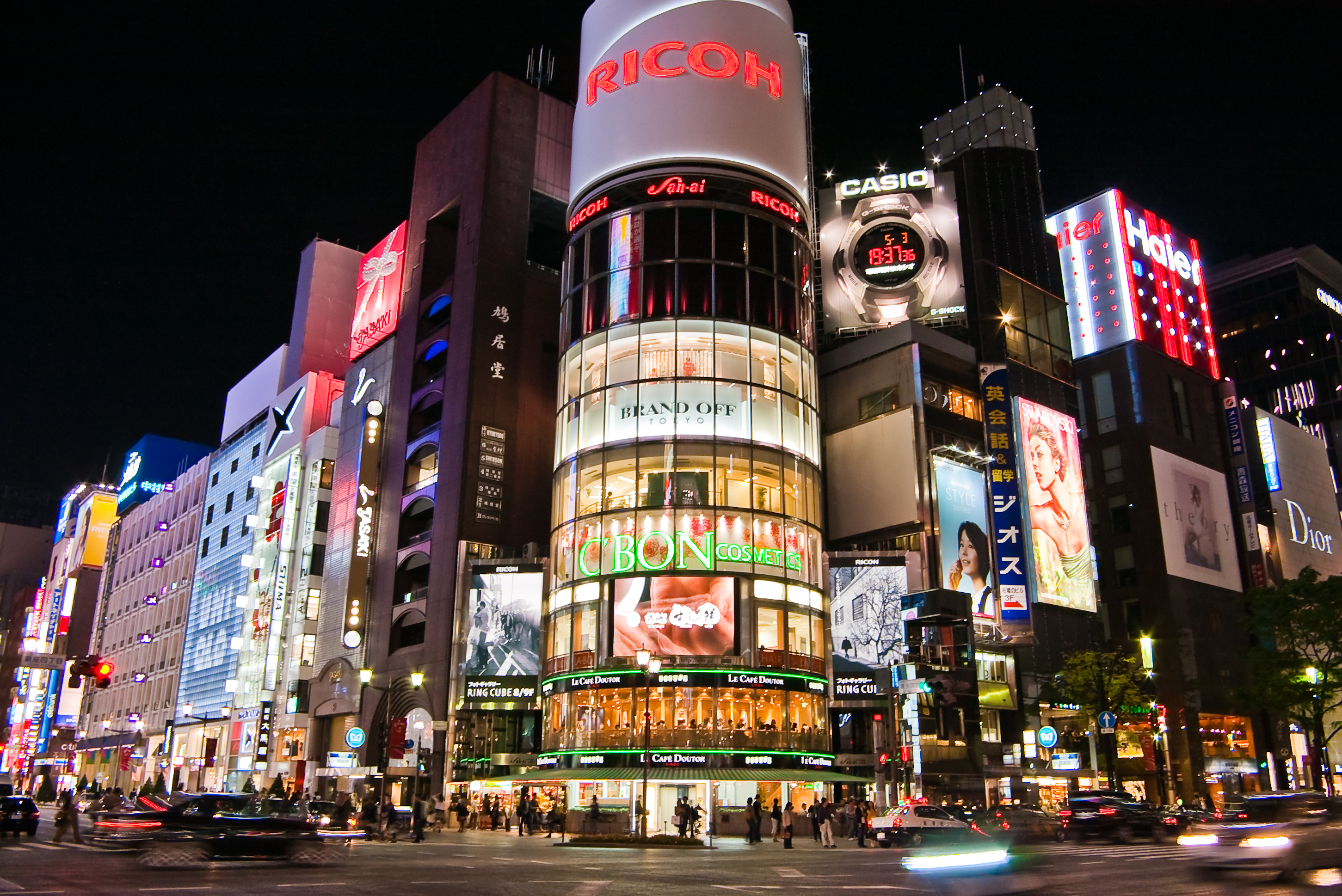 Ginza San-Ai Building View On Black Non-HDR pic taken with PENTAX *istDs smc PENTAX DA 18-55mm F3.5-5.6 AL II